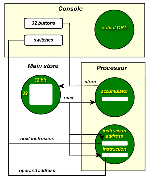 Architectural schematic of the Manchester Small Scale Experimental Machine, the first stored-program electronic computer.